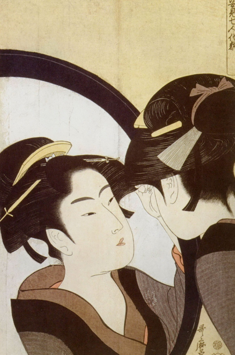 Kitagawa Utamaro - Beauty at her toilet (circa 1790).